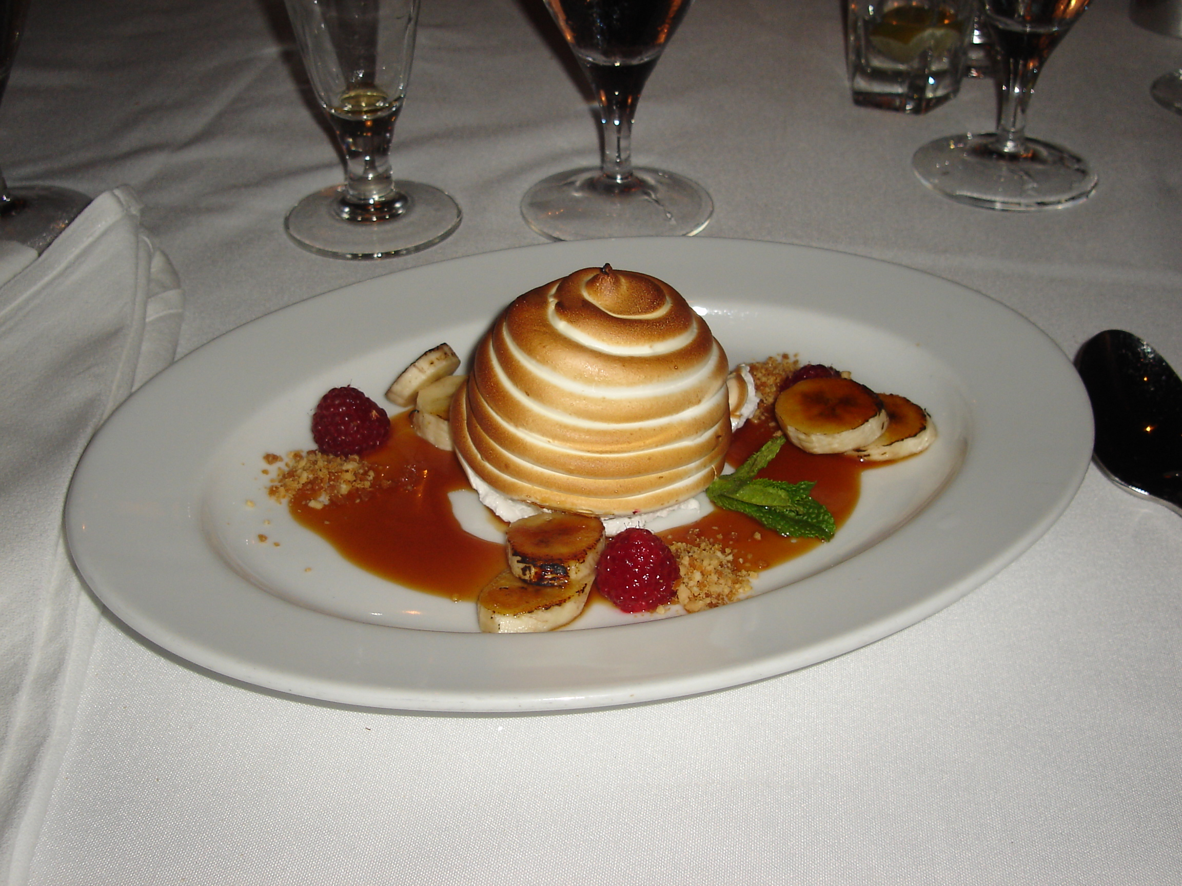 Dessert at Harris Restaurant. Its a scoop of ice cream enclosed in a meringue beehive. I'm not much of a steak connoisseur but I also had the best rib-eye ever. ]:)